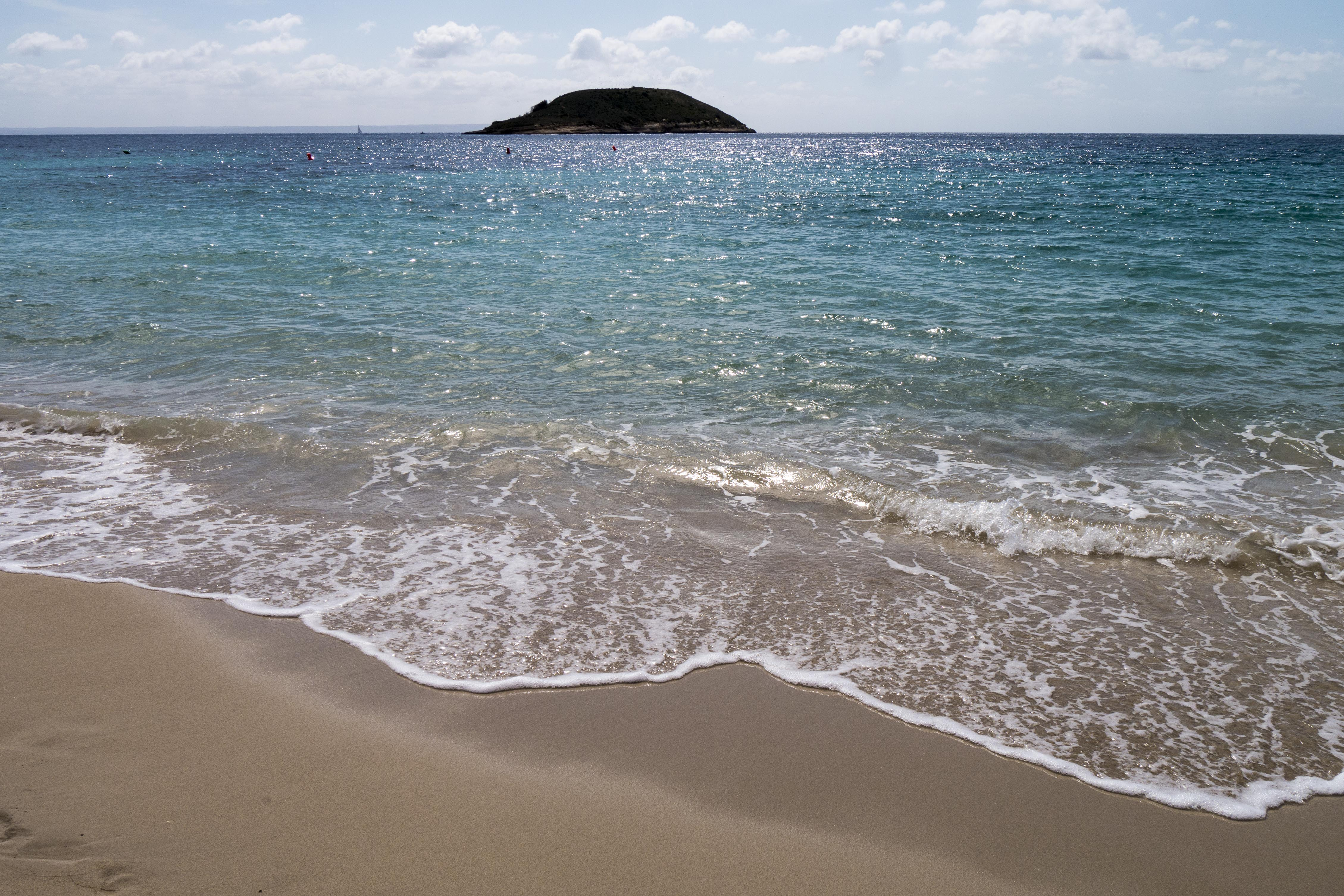 Magalluf 2016